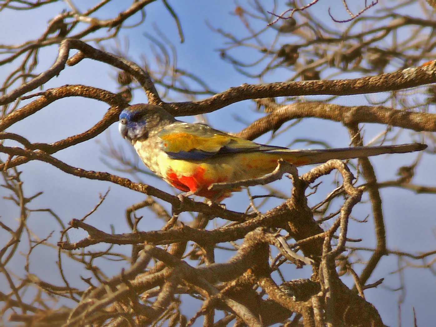 A Blue Bonnett in the Cocoparra National Park (near Griffith), NSW, Australia.